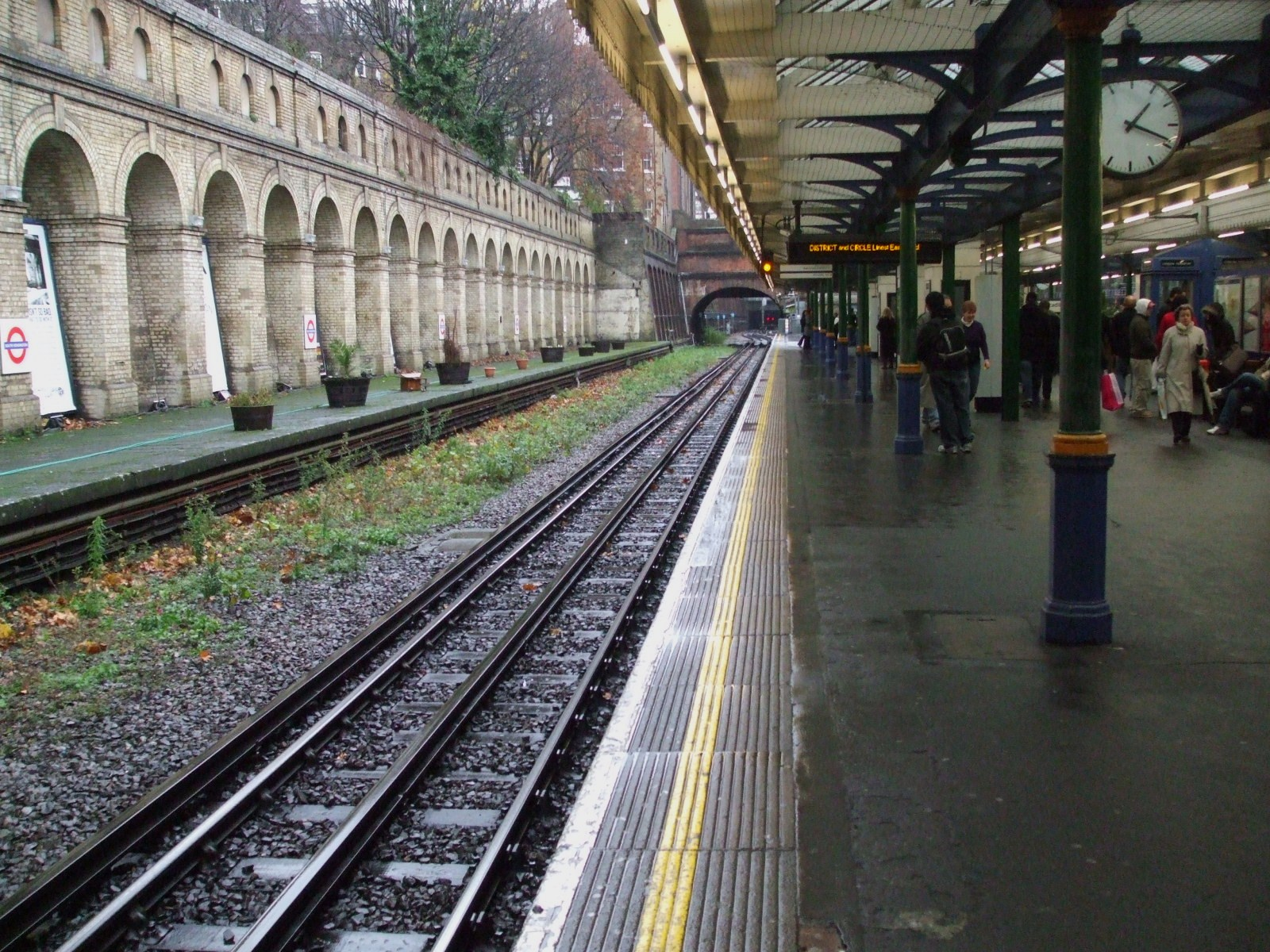 South Kensington tube station District and Circle line eastbound/anticlockwise platform looking east/anticlockwise. Note remains of former Metropolitan eastbound platform on the left.